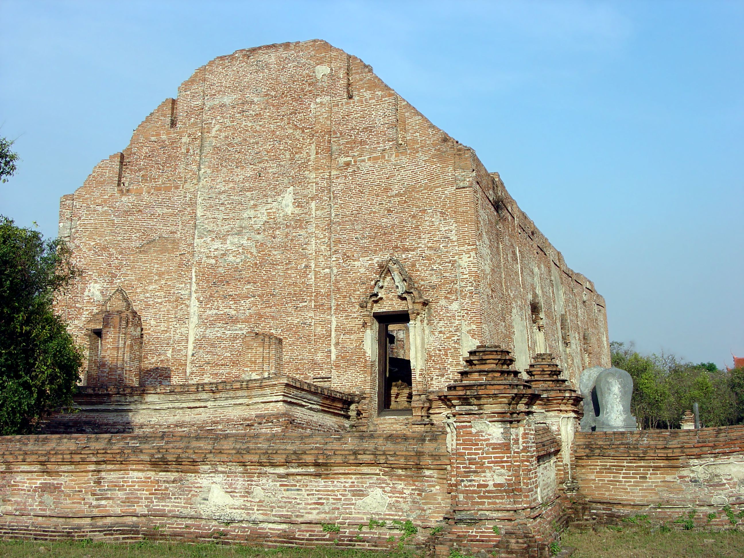 End-view of the Ubosot (ordination hall) of Wat Maheyong, as seen from the main stupa.